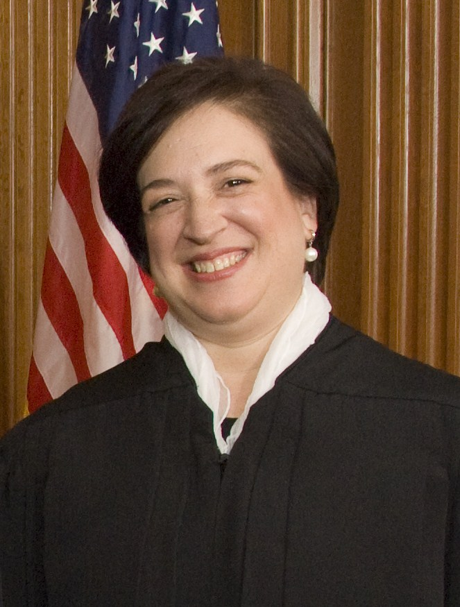 Justice Elena Kagan in the Justices' Conference Room on October 1, 2010.